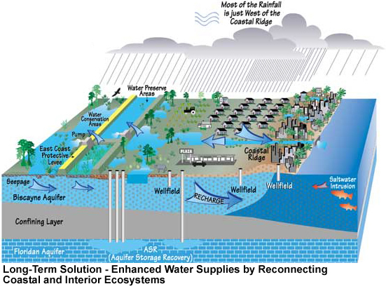 Appearance of future implementation of water recapture in South Florida